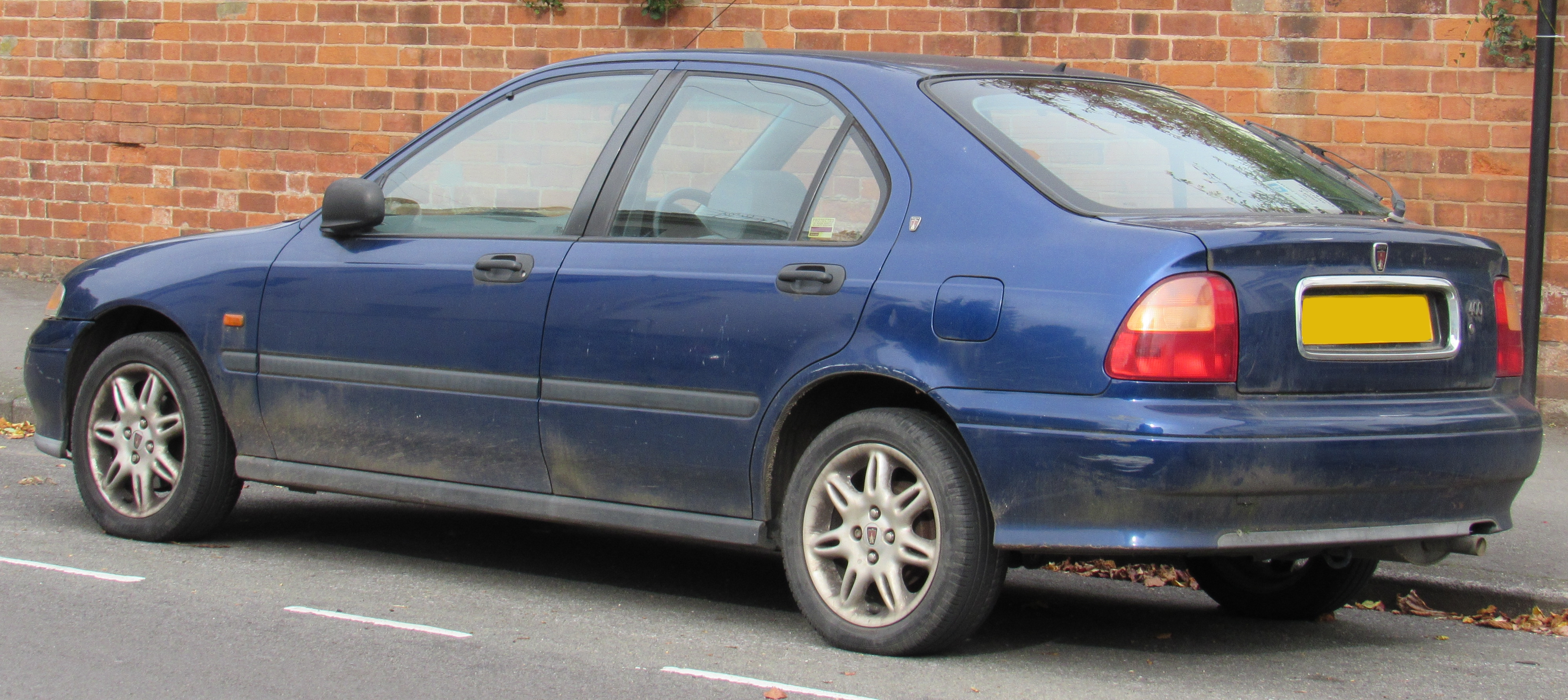 1997 Rover 416S 1.6 Rear Taken in Leamington Spa